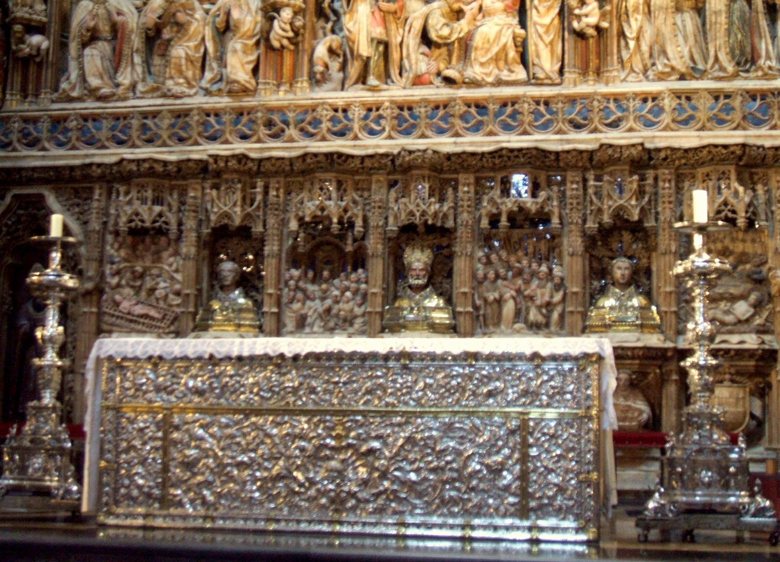 Predela del retablo mayor y altar, Catedral del Salvador (La Seo) de Zaragoza (Aragón, España)